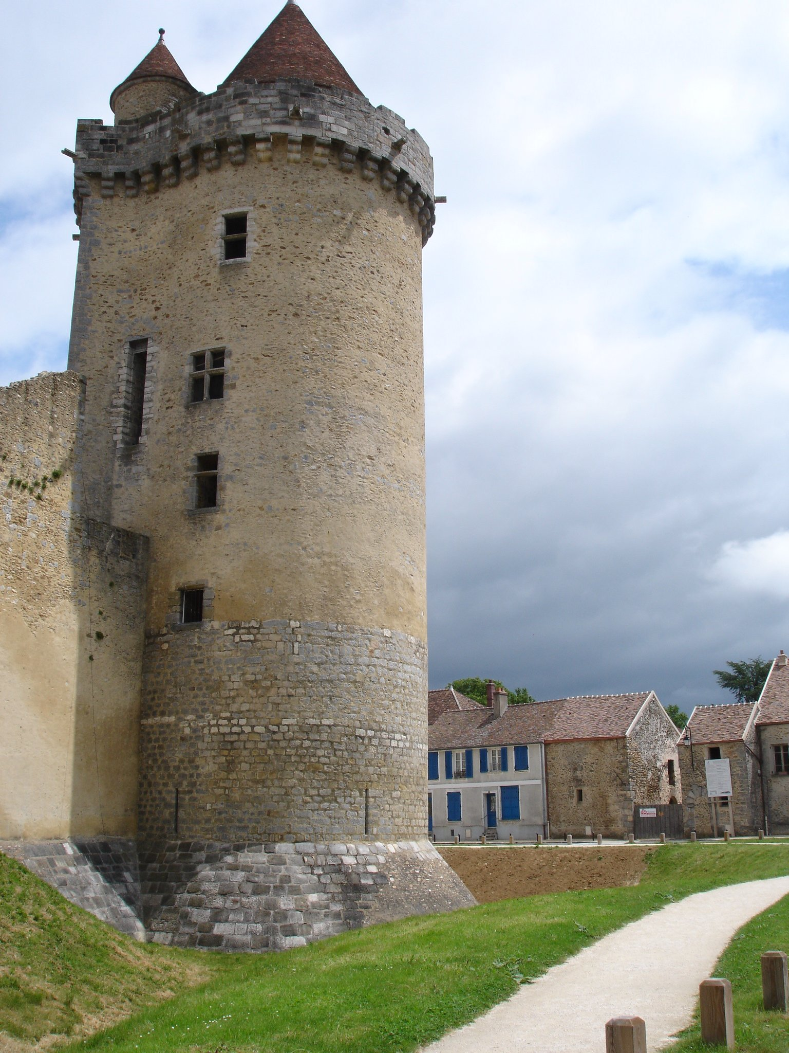 France, Seine-et-Marne, Blandy-les-Tours, Castle